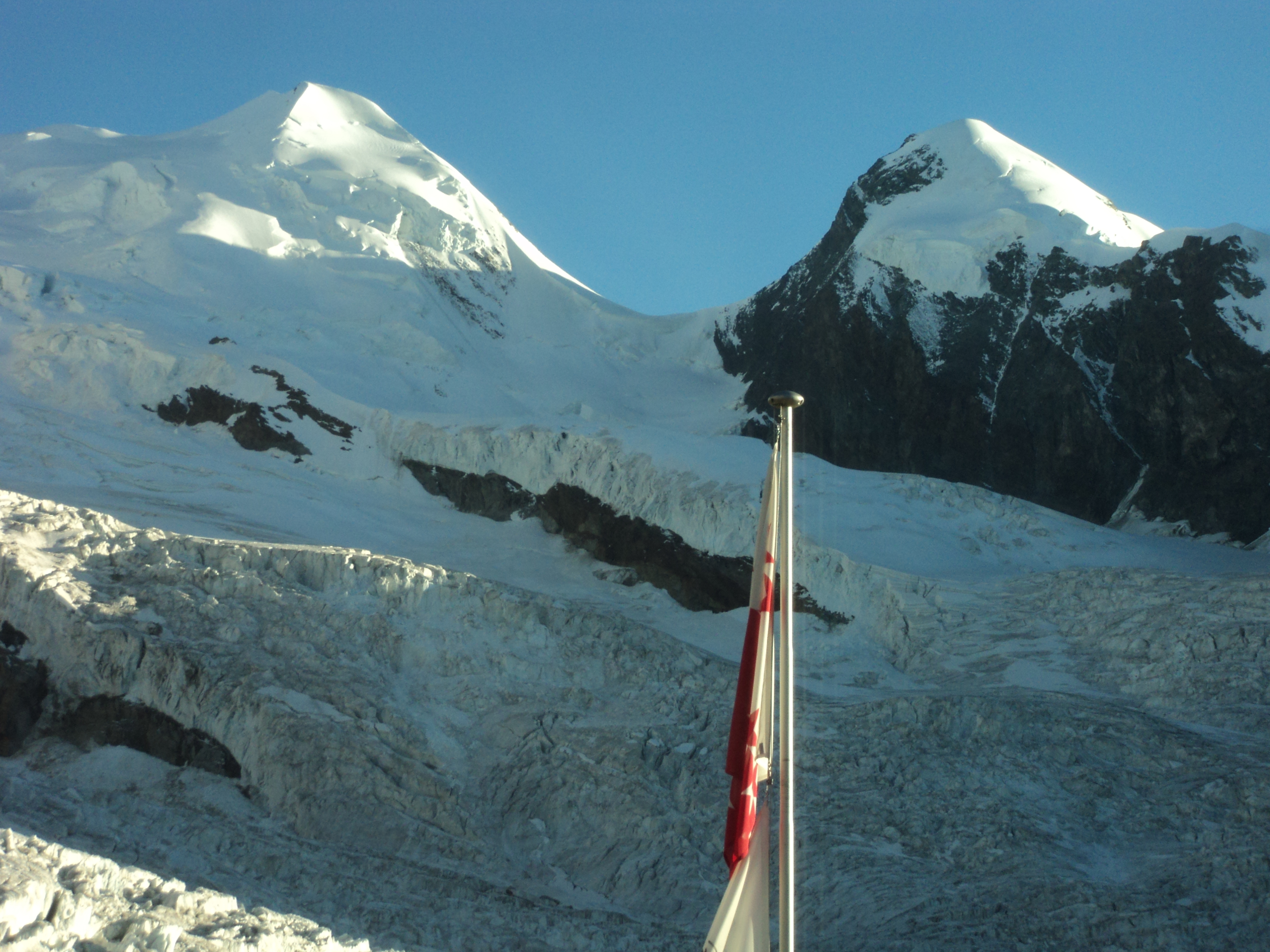 Castor and Pollux fron Monte Rosa Hutte